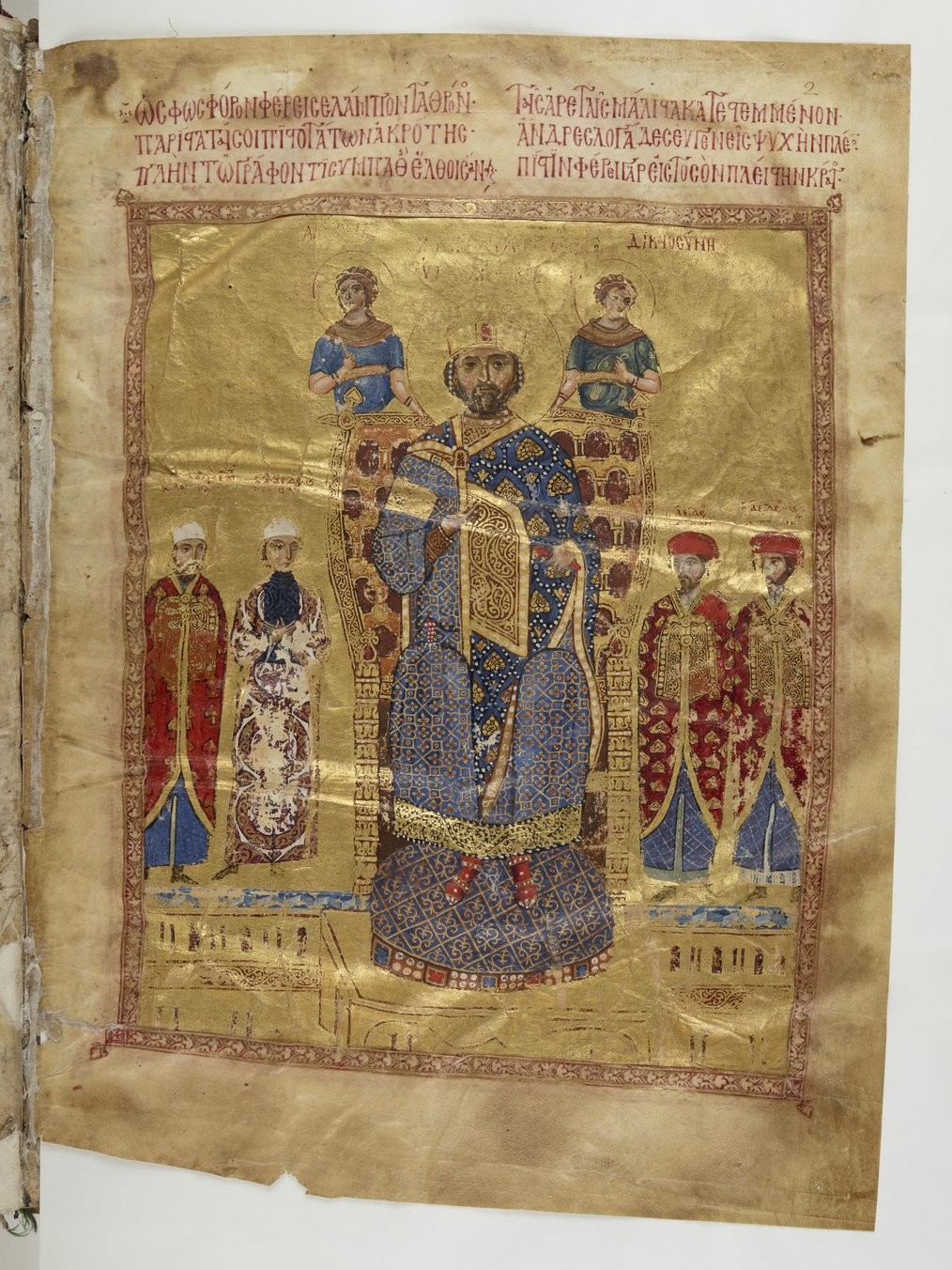 BnF Manuscript Coislin 79 (Homilies of Saint John Chrysostom), folio 2 recto. The Byzantine emperor Nikephoros III Botaneiates – or possibly Michael VII Doukas – seated on his throne, between four court dignitaries, flanked by two personifications of Truth and Justice. From left: the proedros and epi tou kanikleiou, the prōtoproedros and prōtovestiarios, the emperor, the proedros and dekanos, and the proedros and megas primikērios.